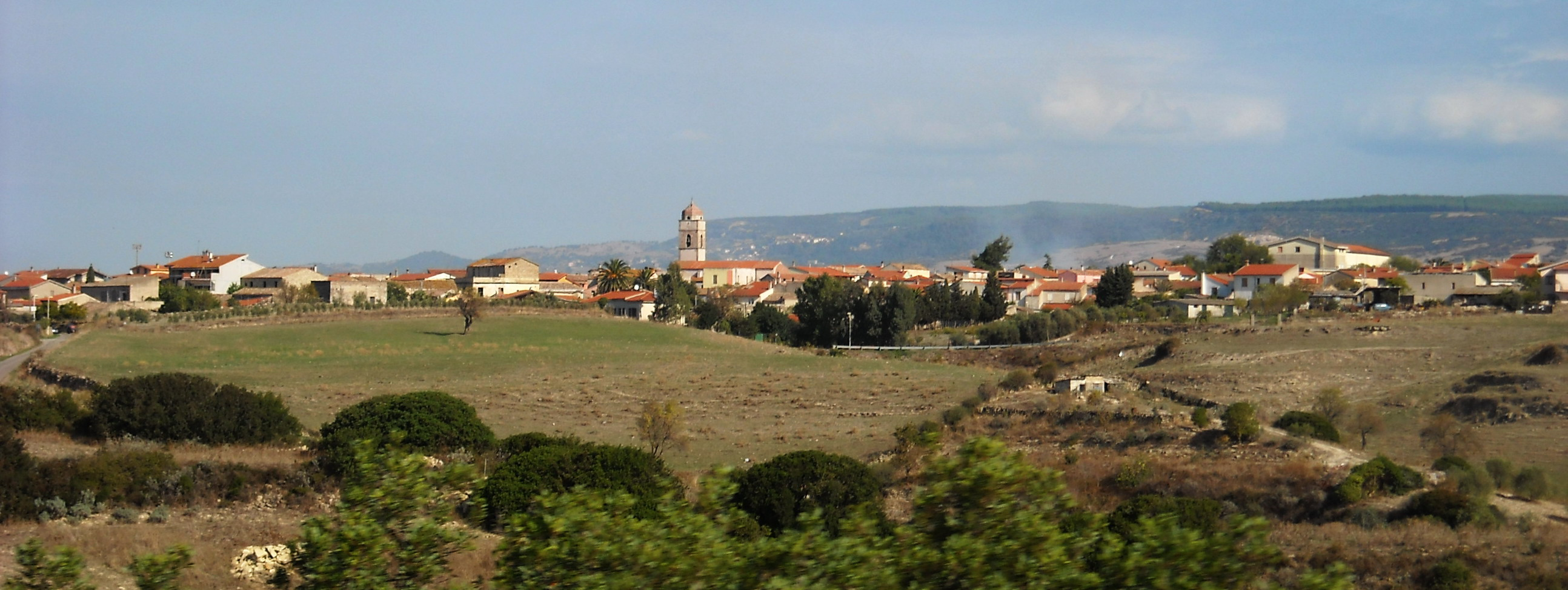 The city of Nuragus where the Sardinian wine grape takes its name.